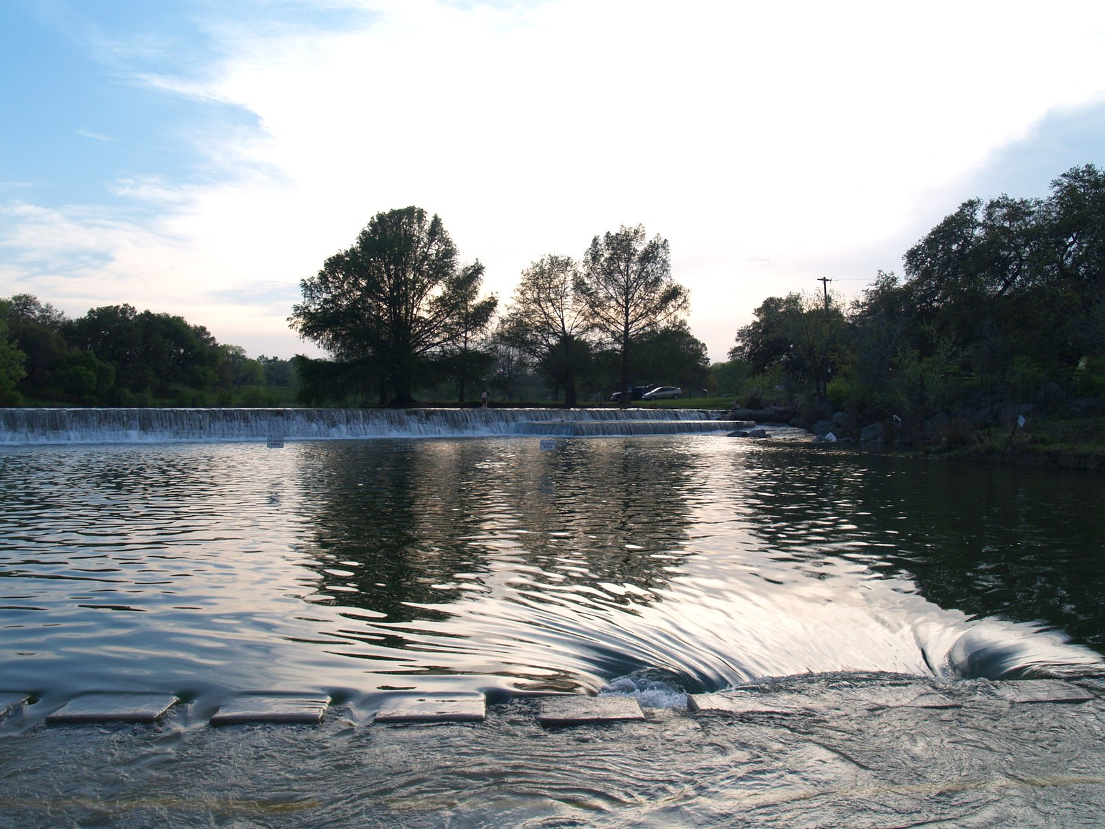 Blanco River Crossing in Blanco State Park, Texas